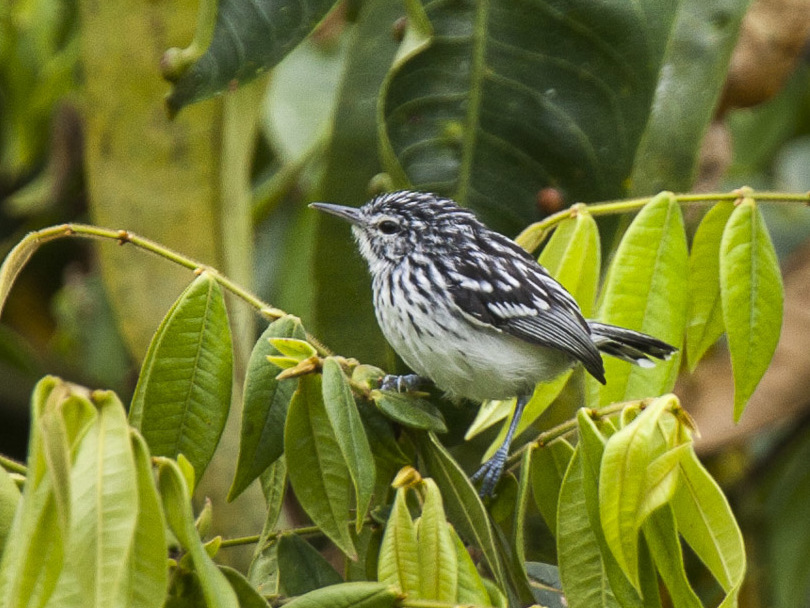 Stripe-chested Antwren - Manu NP_7858